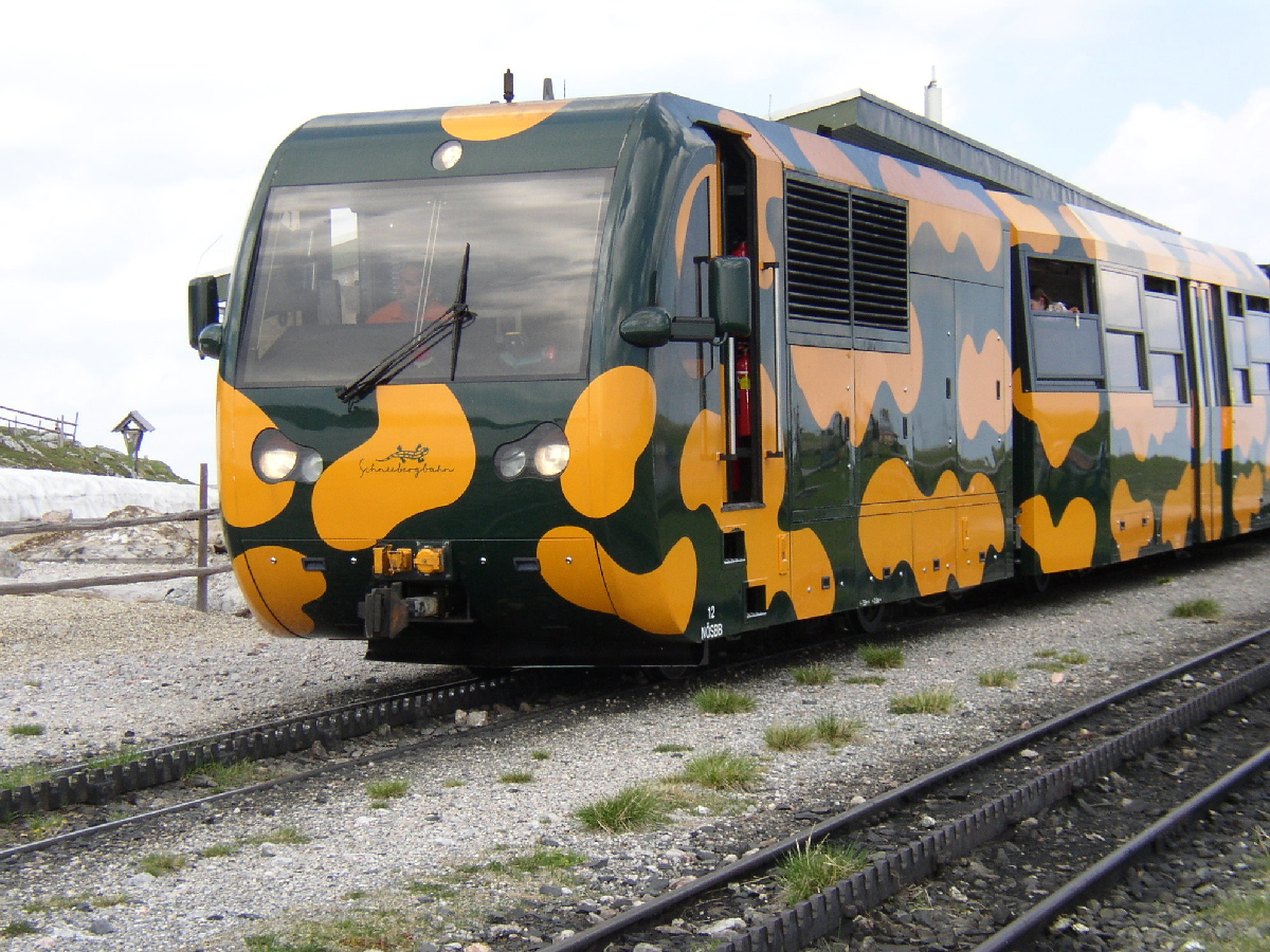 Diesel train "Salamander" of the Schneeberg cog railway